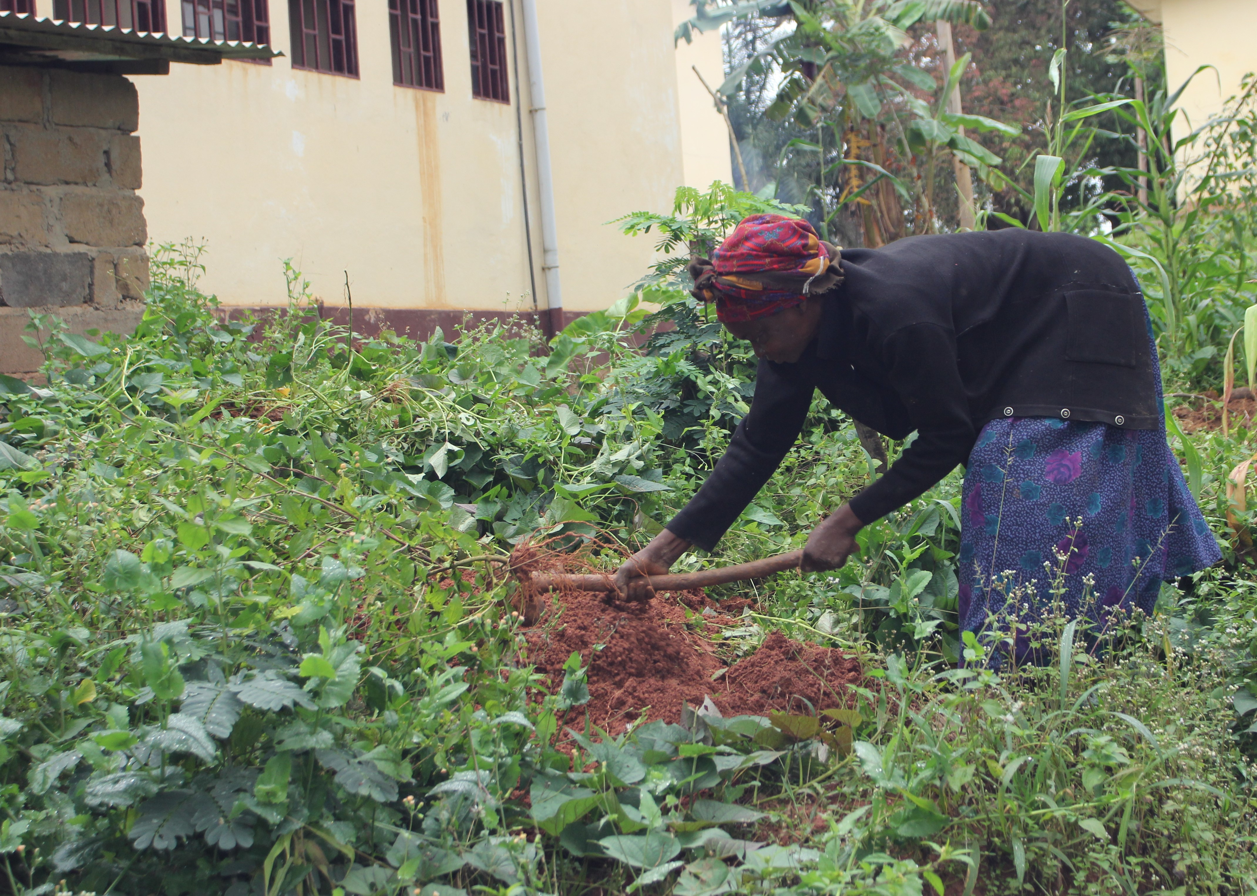 The process of harvesting yams in Bafia This is an image of "African people at work" from Cameroon